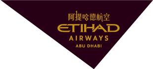 Etihad Airways Chinese logo